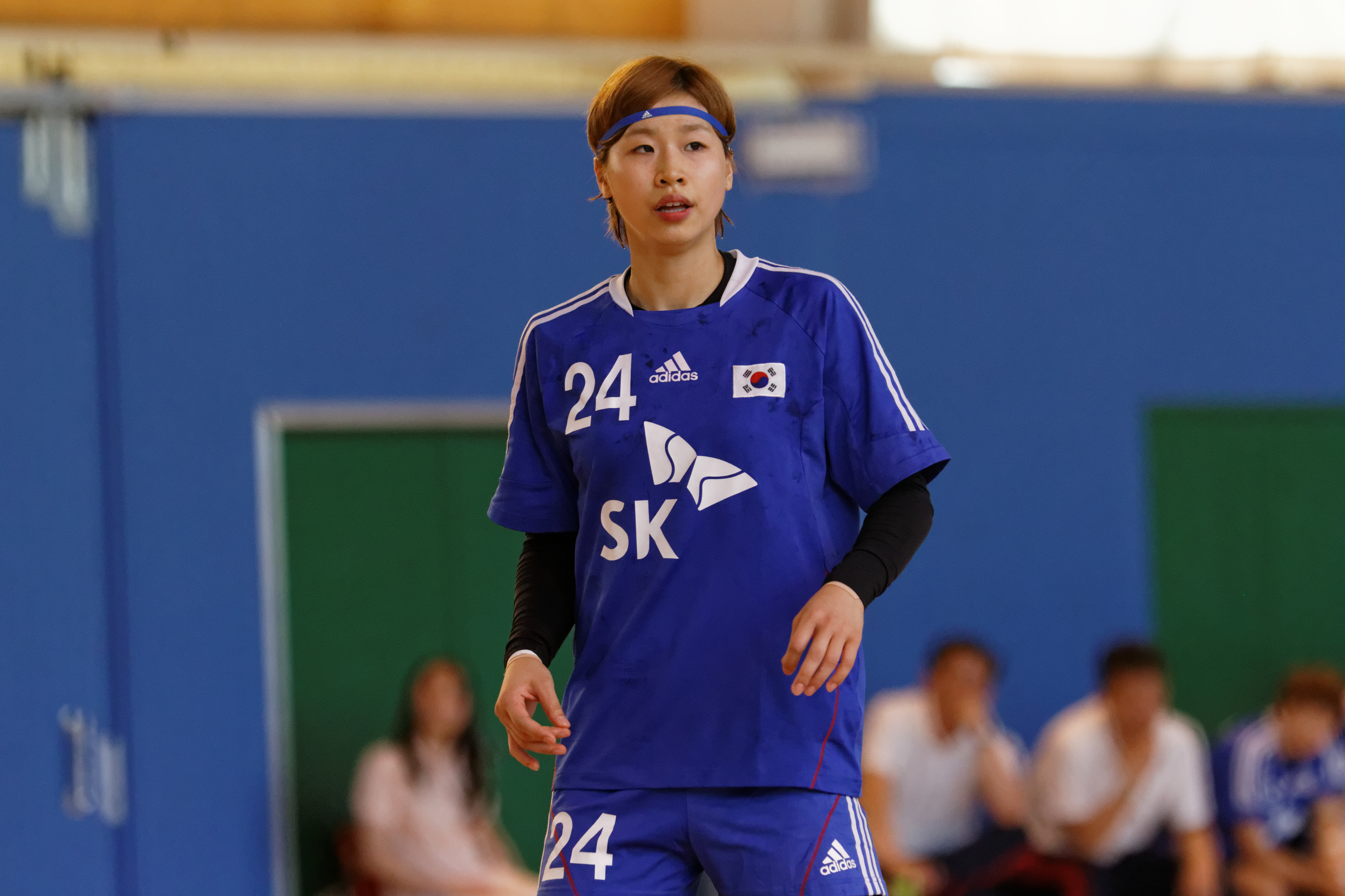 Issy Paris Hand - South Korea, 12 August 2014